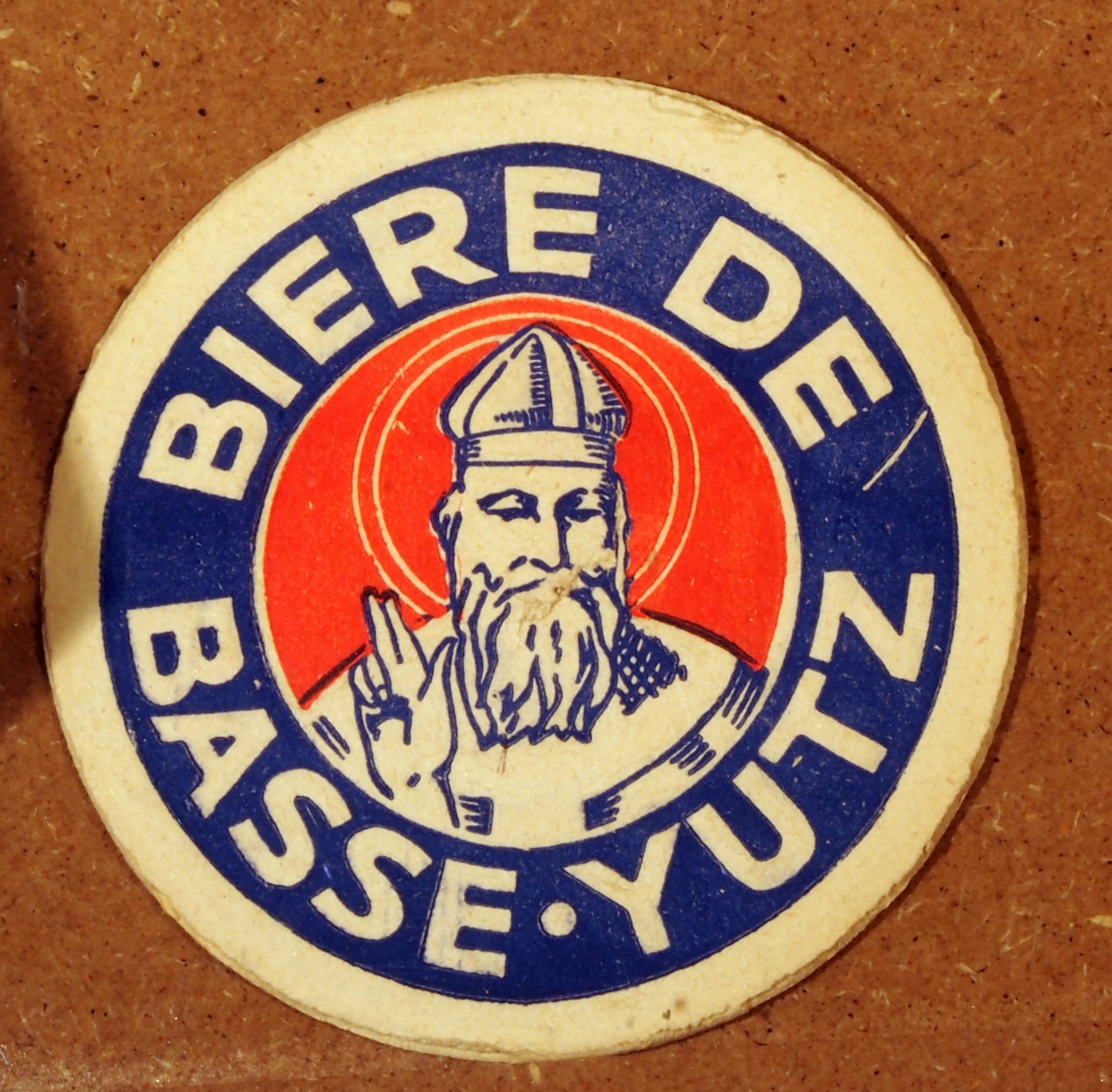 Bière de Basse Yutz. (Photographed through glass.)